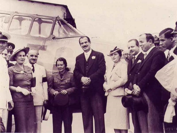 Sabiha Gökçen in Athens, with Turkish ambassador to Athens Ruşen Eşref Ünaydın